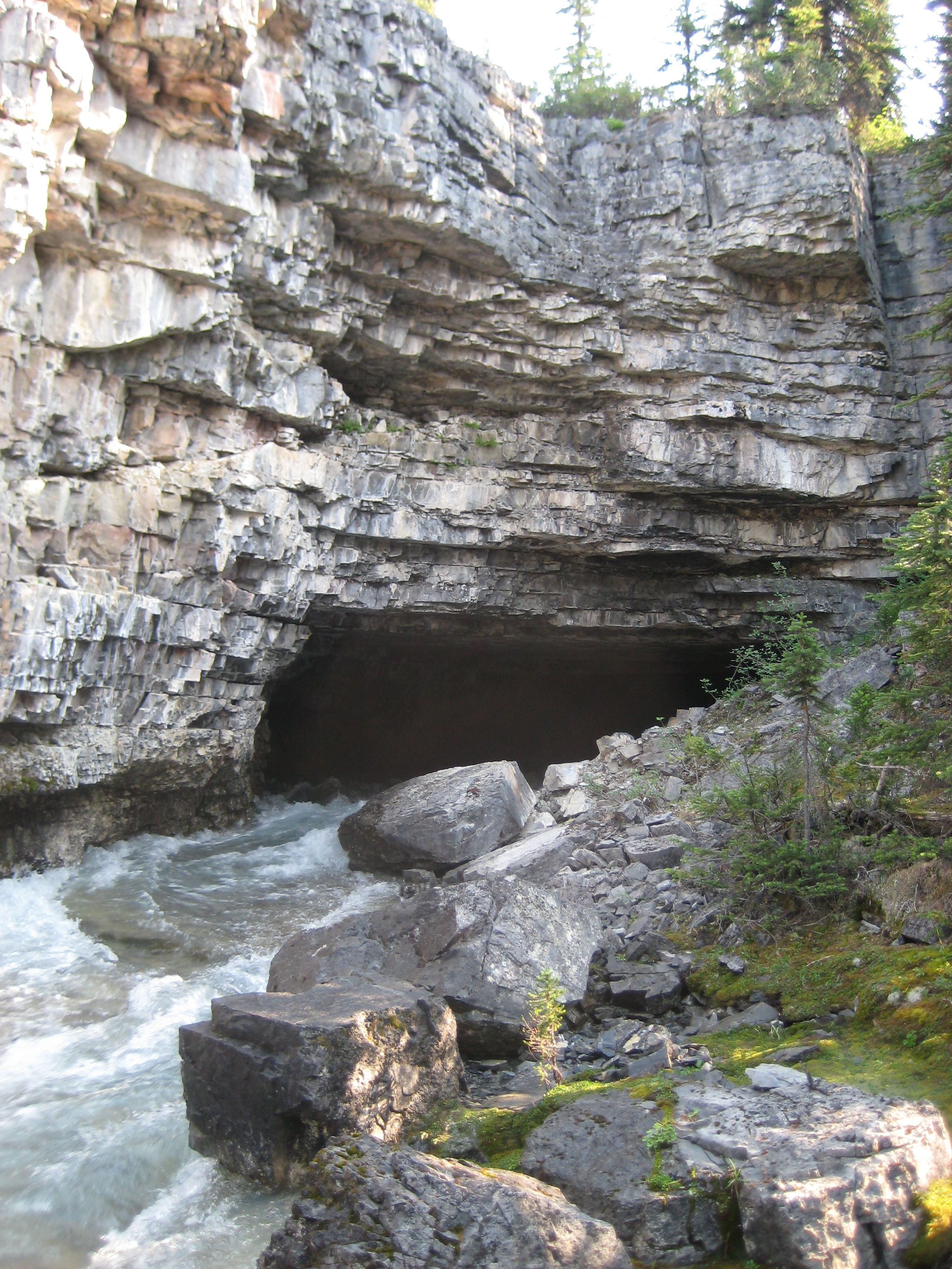 The only entrance to Castleguard Cave with summer drainage; north end of Banff National Park, Canadian Rocky Mountains. 20357 m of the cave have been explored (as of 2007). The cave ascends gently from its entrance in the east and terminates beneath (!) the active Columbia Icefield.